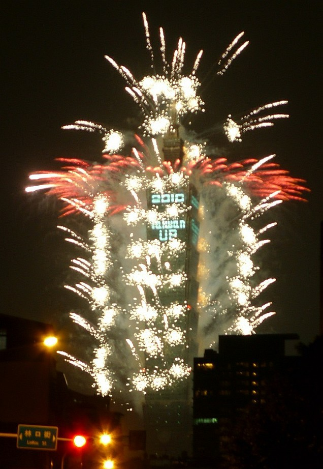 2010 New Year fireworks at Taipei 101